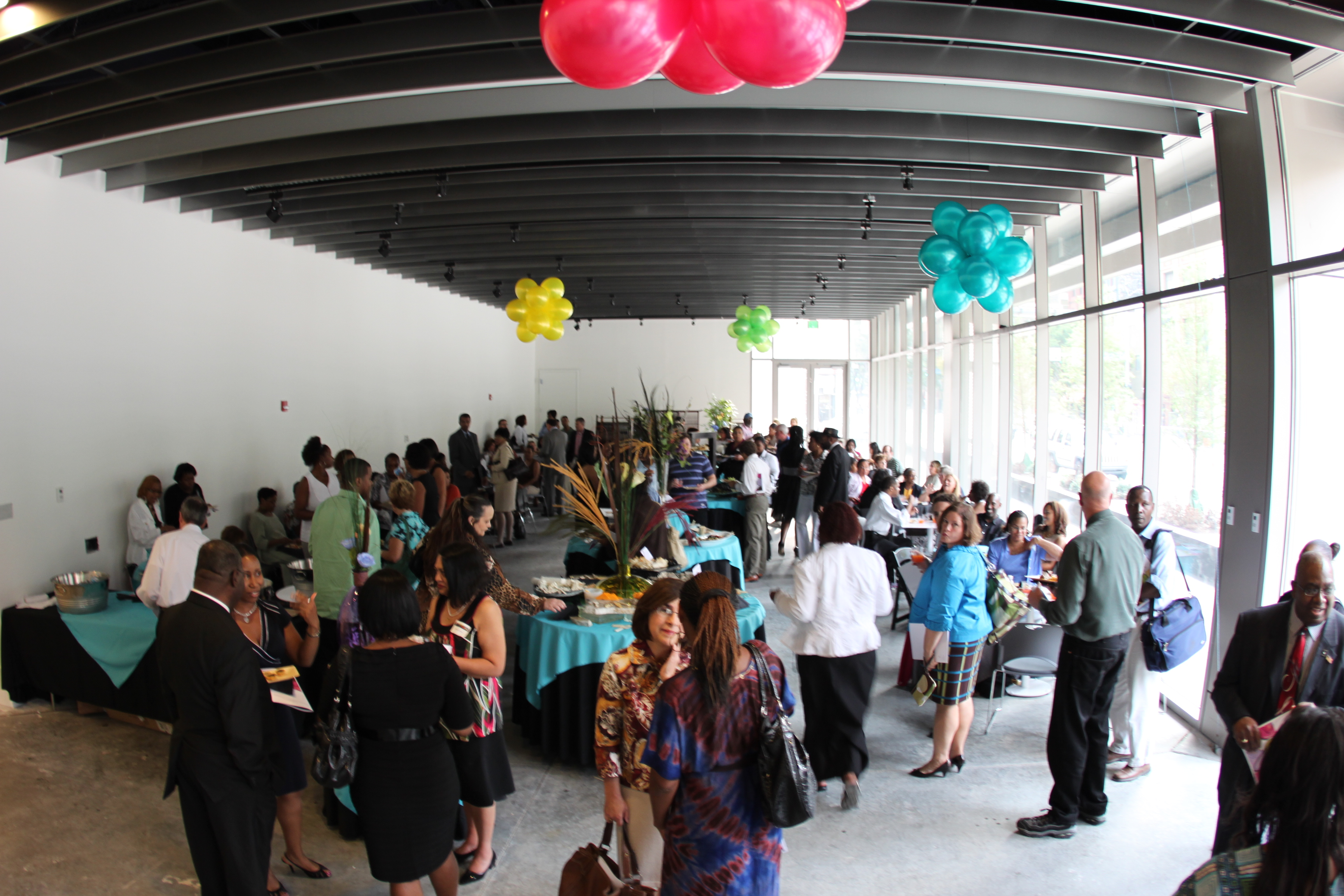 August Wilson Center diversity grand opening